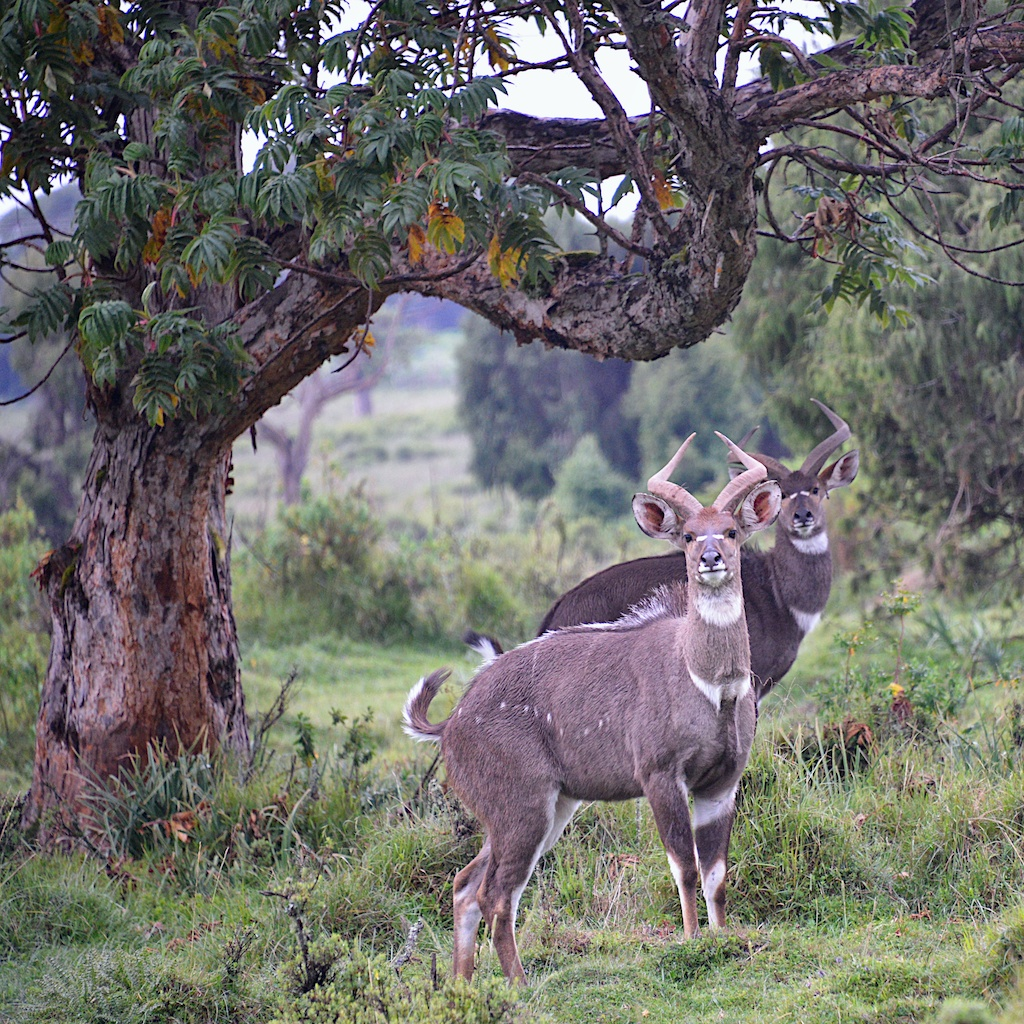 Natural World Ethiopia